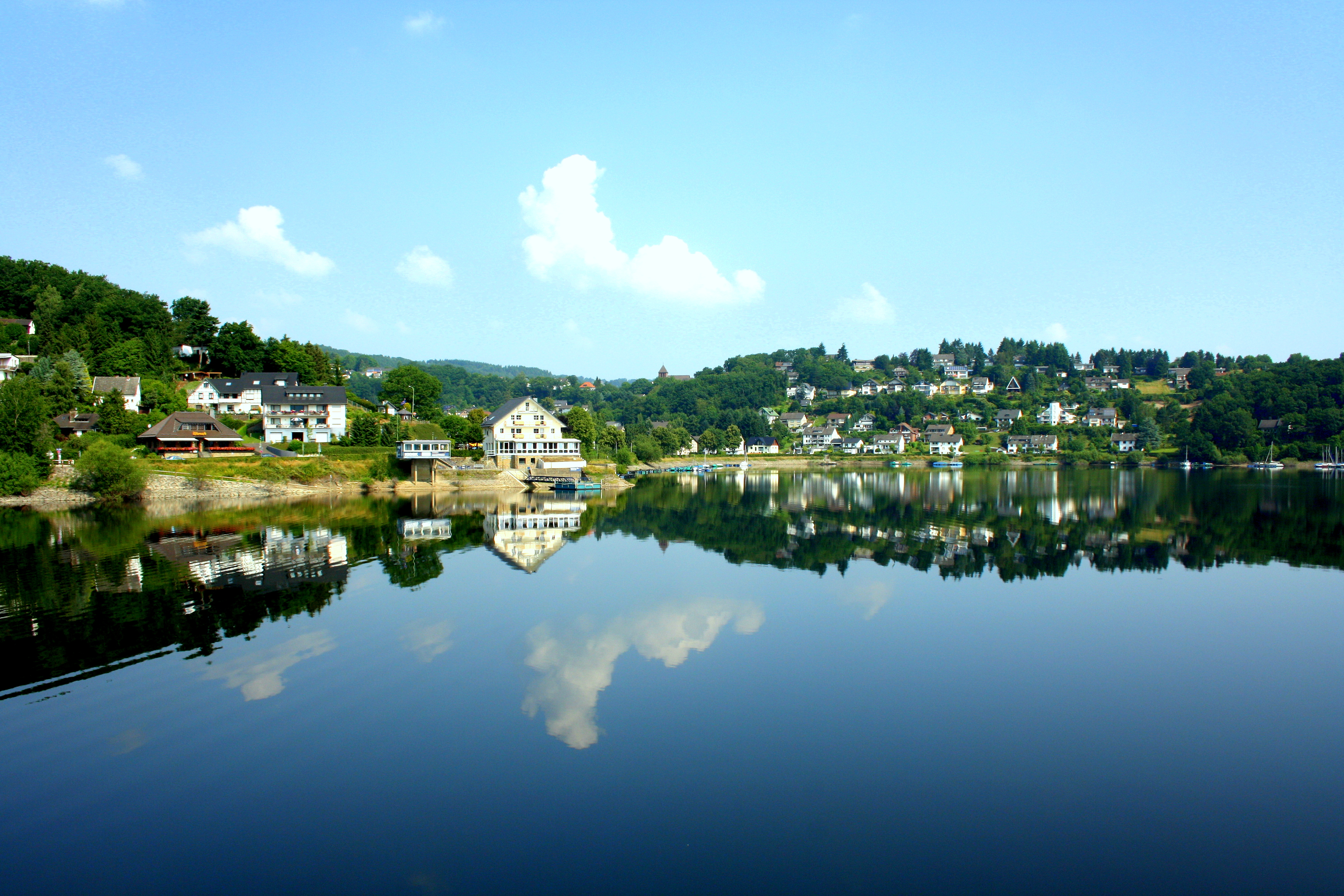 Rurberg in German Eifel mountains, seen across Lake Rursee